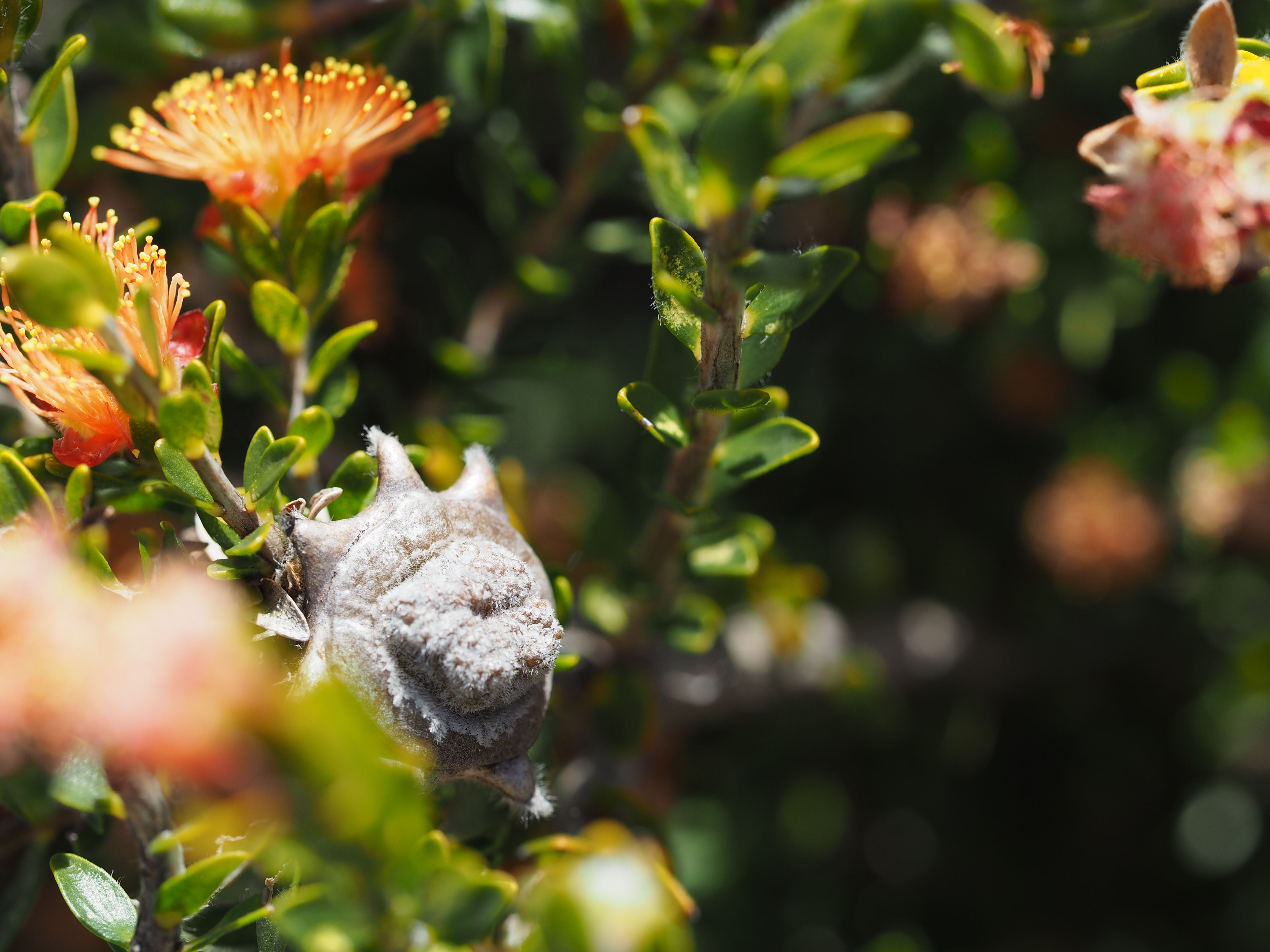 Eremaea brevifolia growing near the entrance road to Lesueur National Park